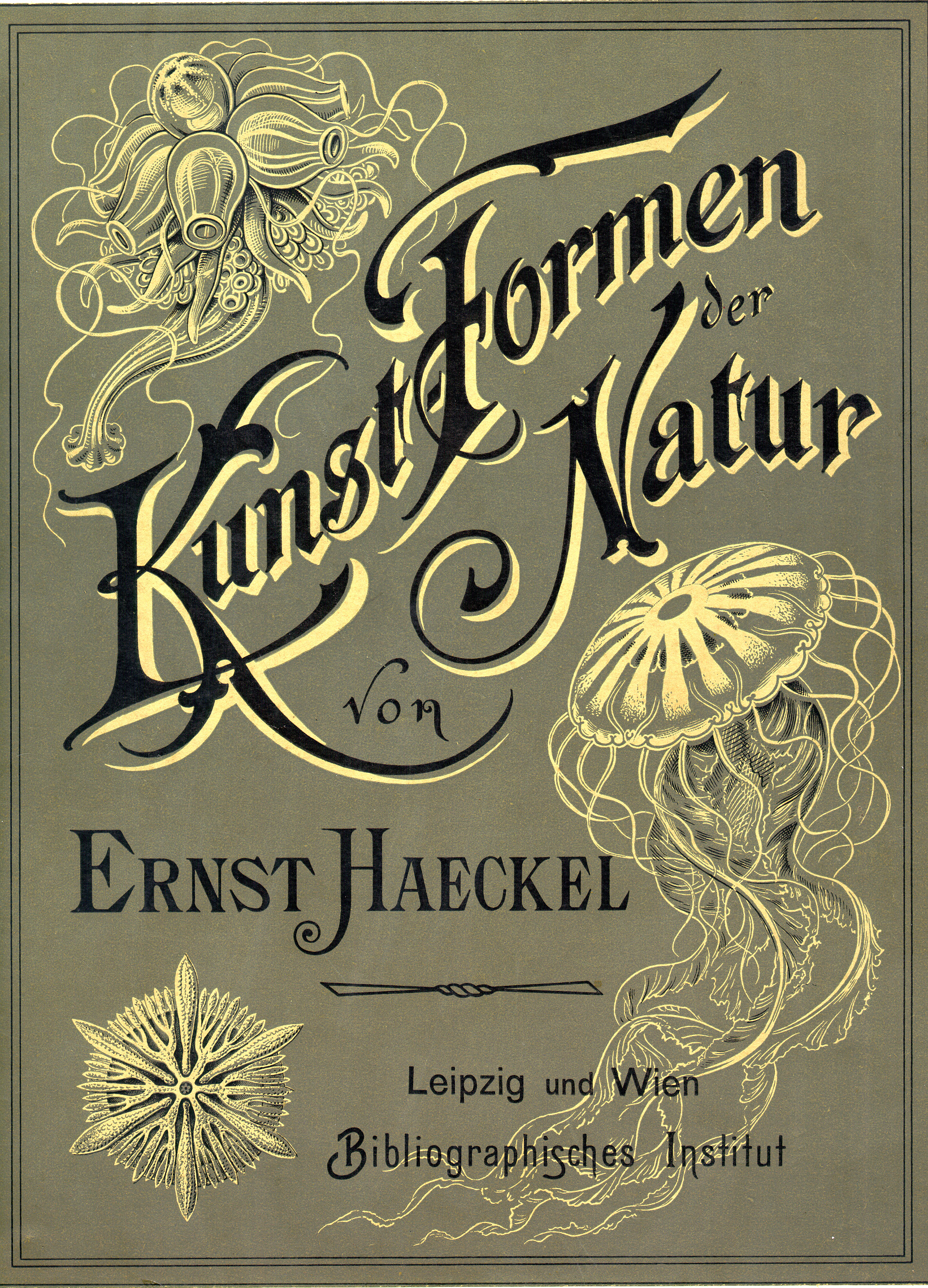 The cover of Ernst Haeckel’s Kunstformen der Natur (1904).